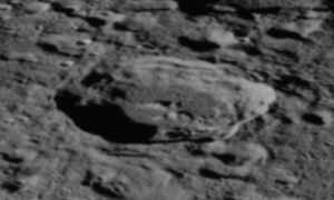 Oblique view of Cantor, facing northeast, on the far side of the moon.